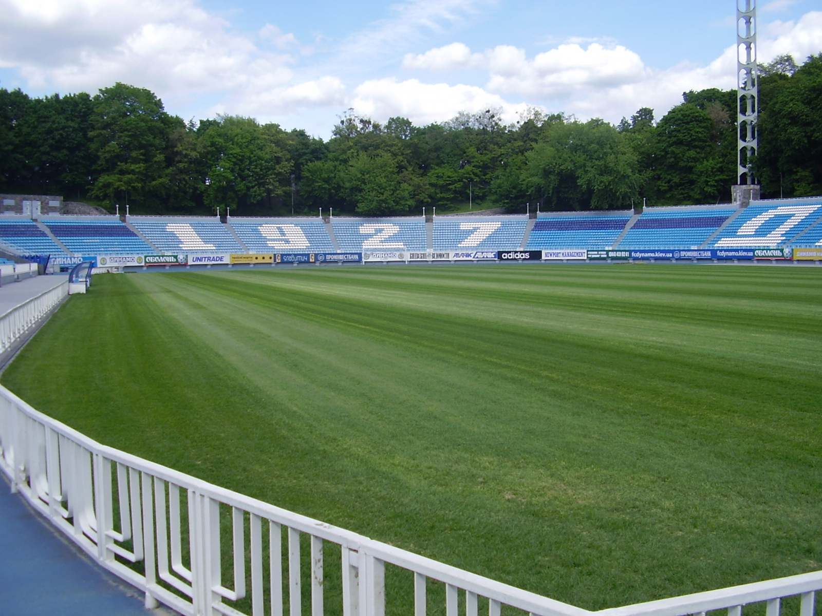 Lobanovsky Dynamo Stadium, Kyiv